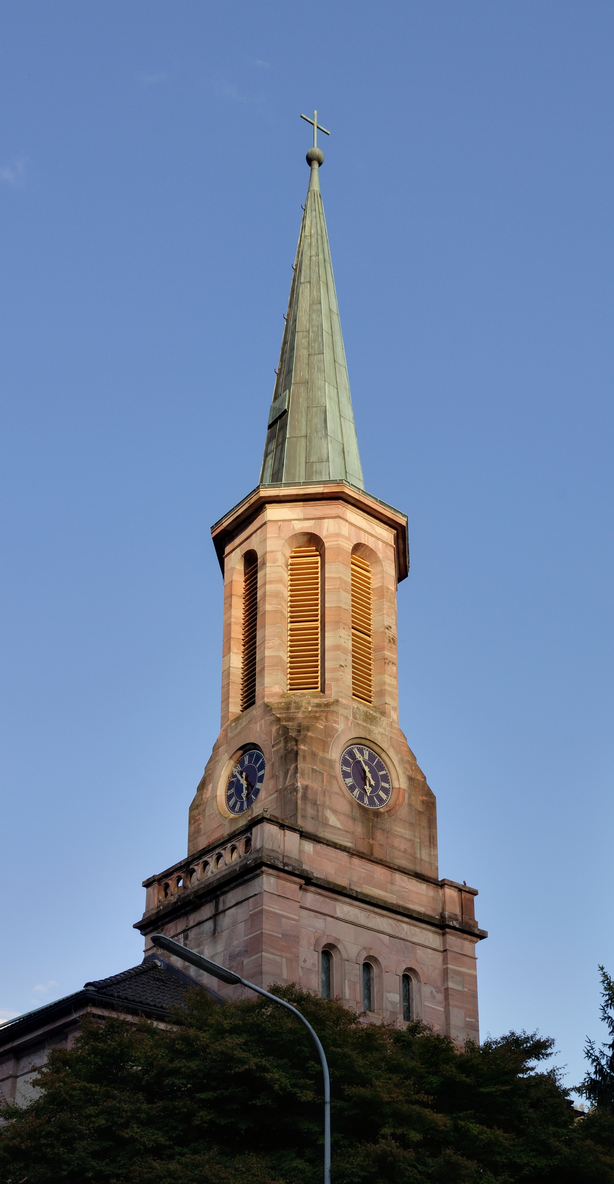 Zell: Protestant Church